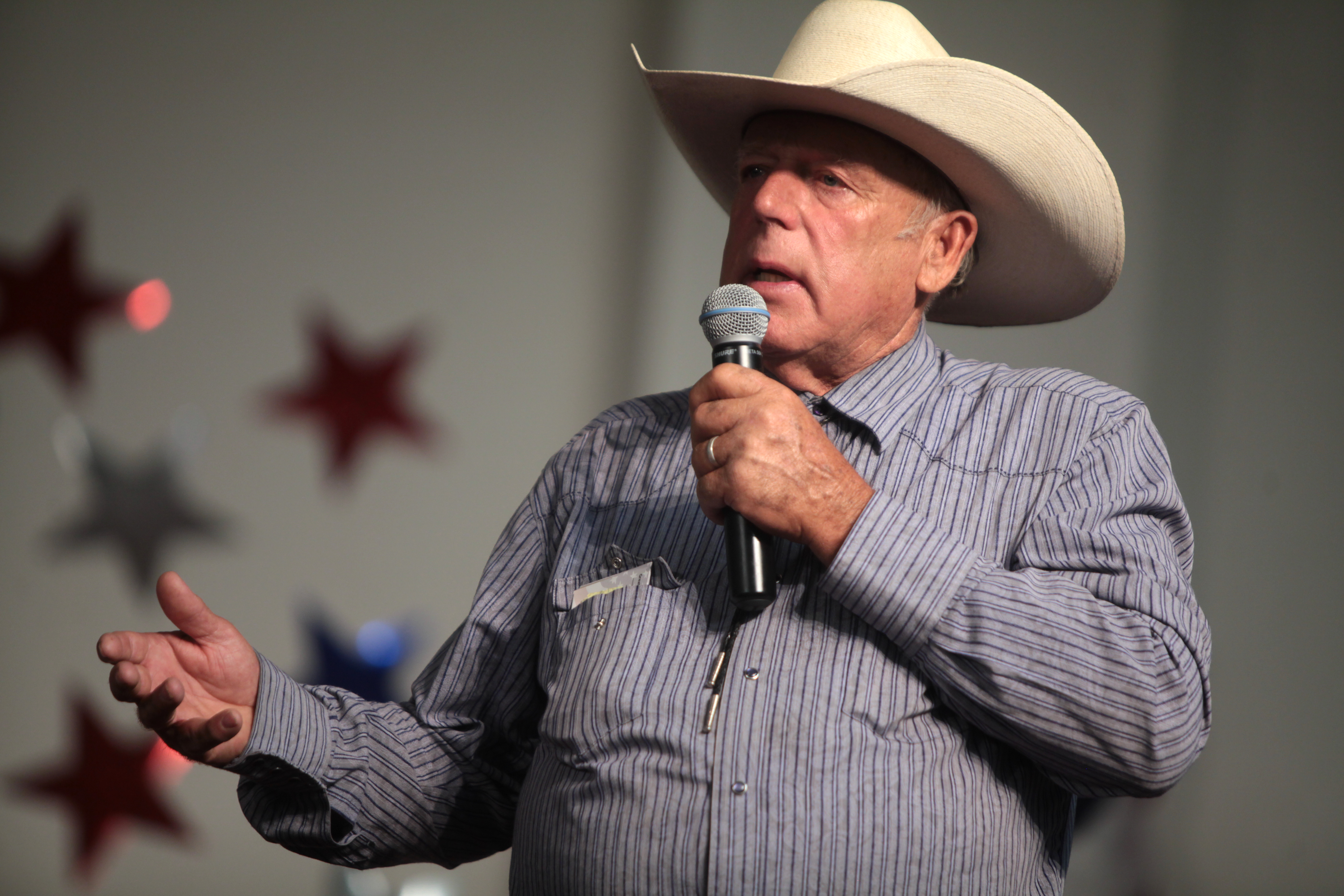 Cliven Bundy speaking at a forum hosted by the American Academy for Constitutional Education (AAFCE) at the Burke Basic School in Mesa, Arizona.